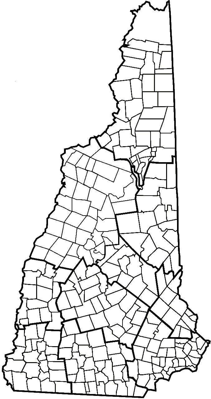 Map depicting the New Hampshire municipalities.